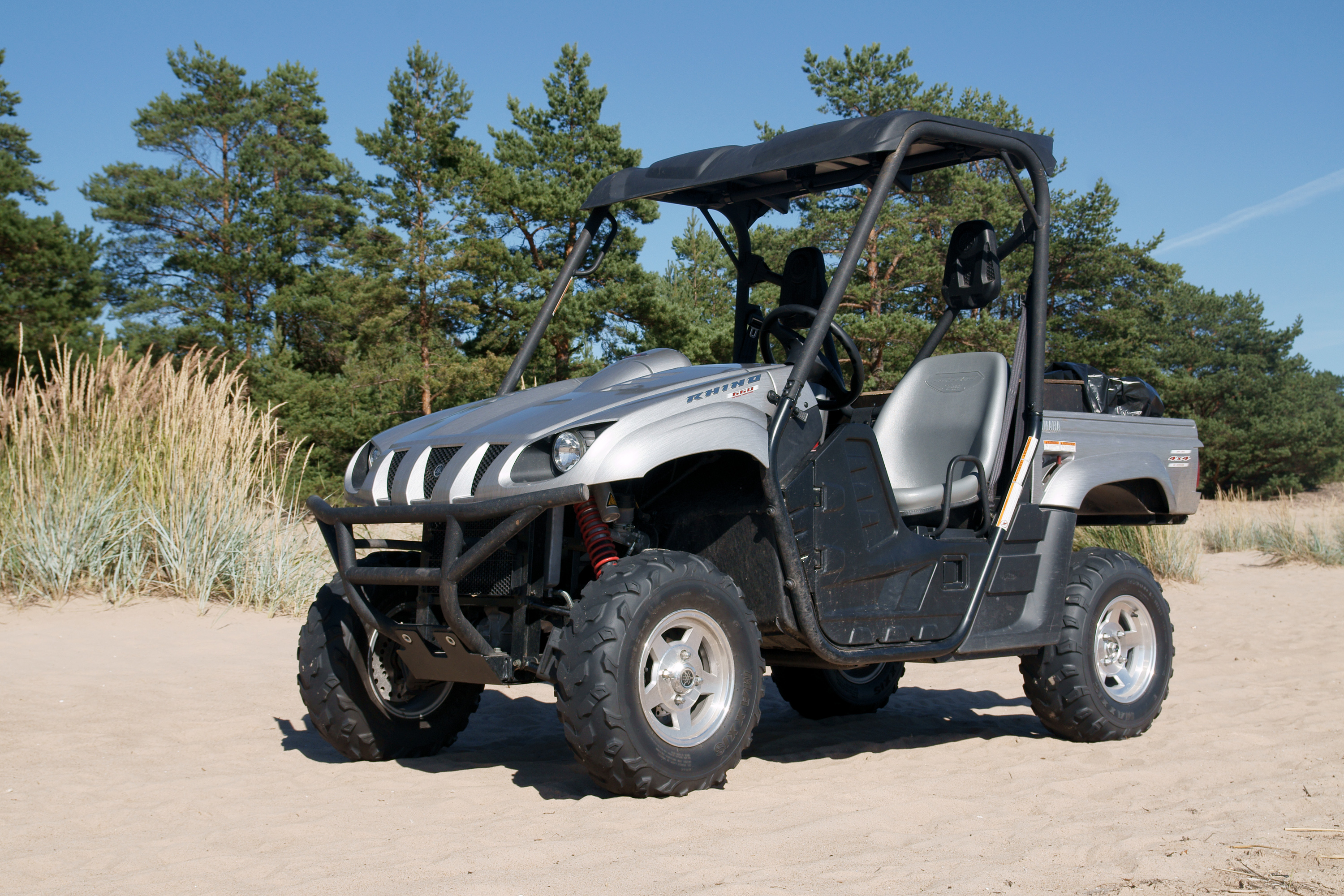 Yamaha Rhino in Yyteri, Pori, Finland.